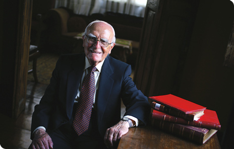 Peruvian Historian